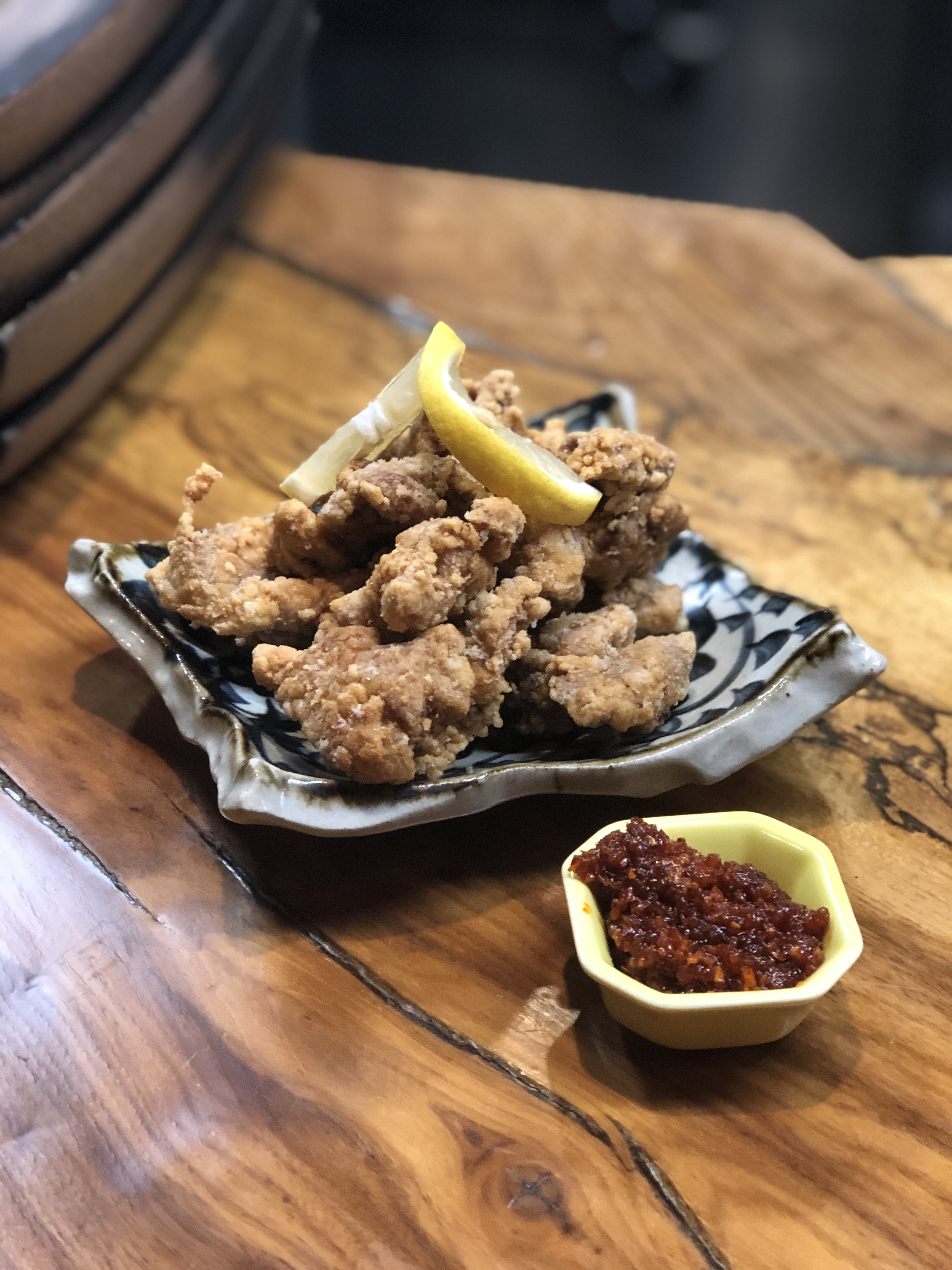 Chicken karaage at Shige Sushi and Izakaya in Sonoma, California